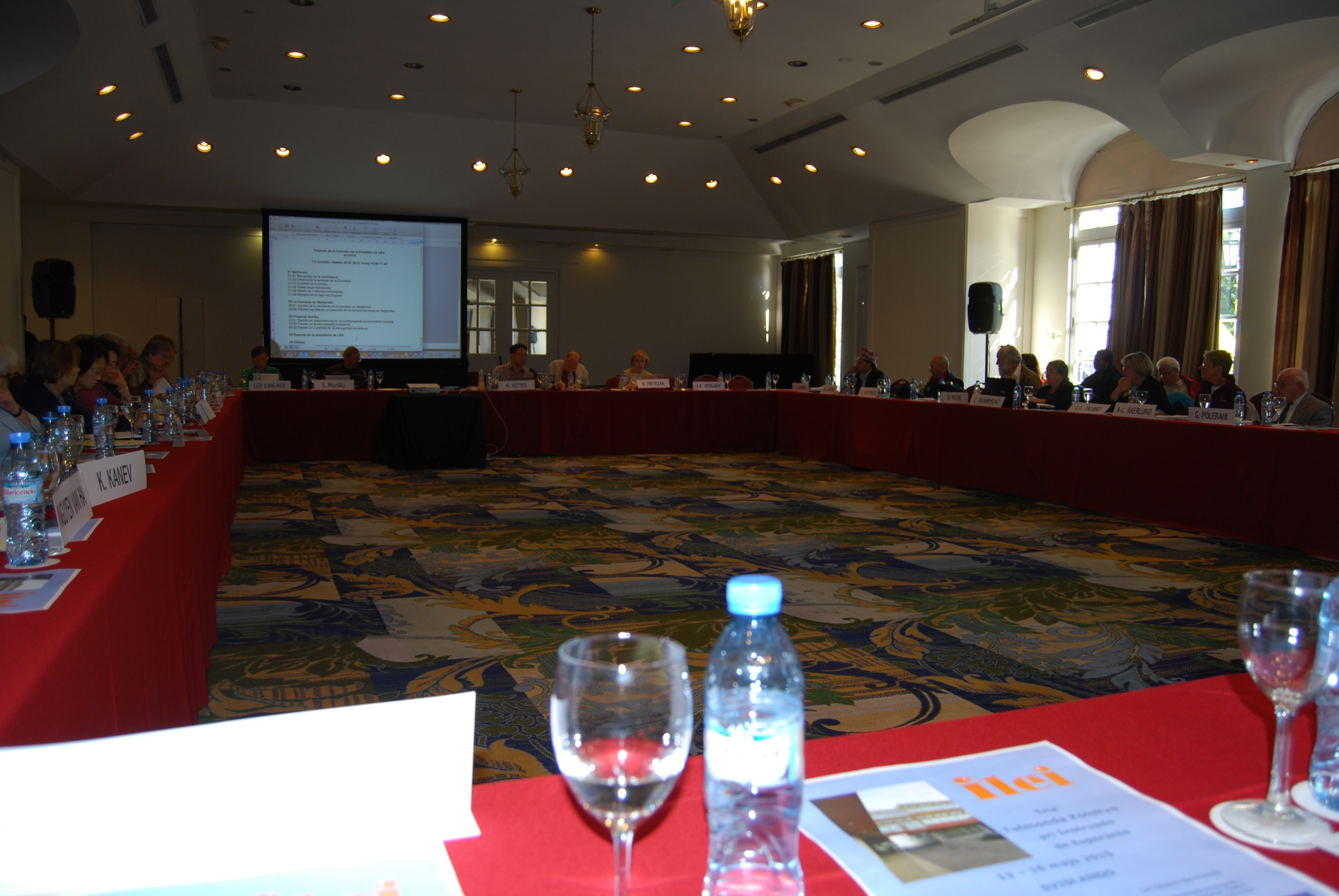 99th World Esperanto Congress, Argentine